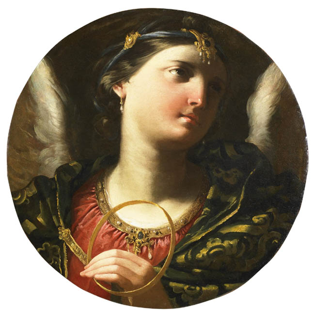 Allegory of Eternitylabel QS:Len,"allegory of Eternity"label QS:Les,"Alegoría de la Eternidad"